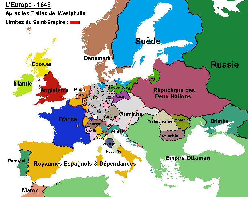 A Simplified Map of Europe after the Westphalian Peace in 1648 (In French)